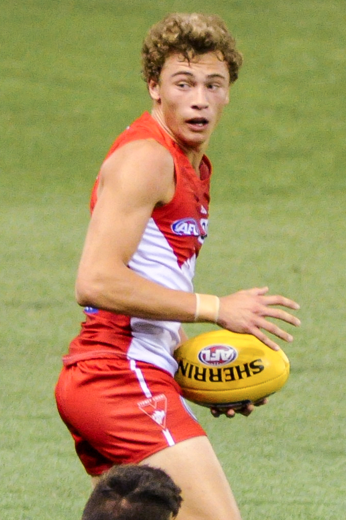 Will Hayward during the AFL round two match between the Western Bulldogs and Sydney on 31 March 2017 at the Etihad Stadium in Melbourne, Victoria.